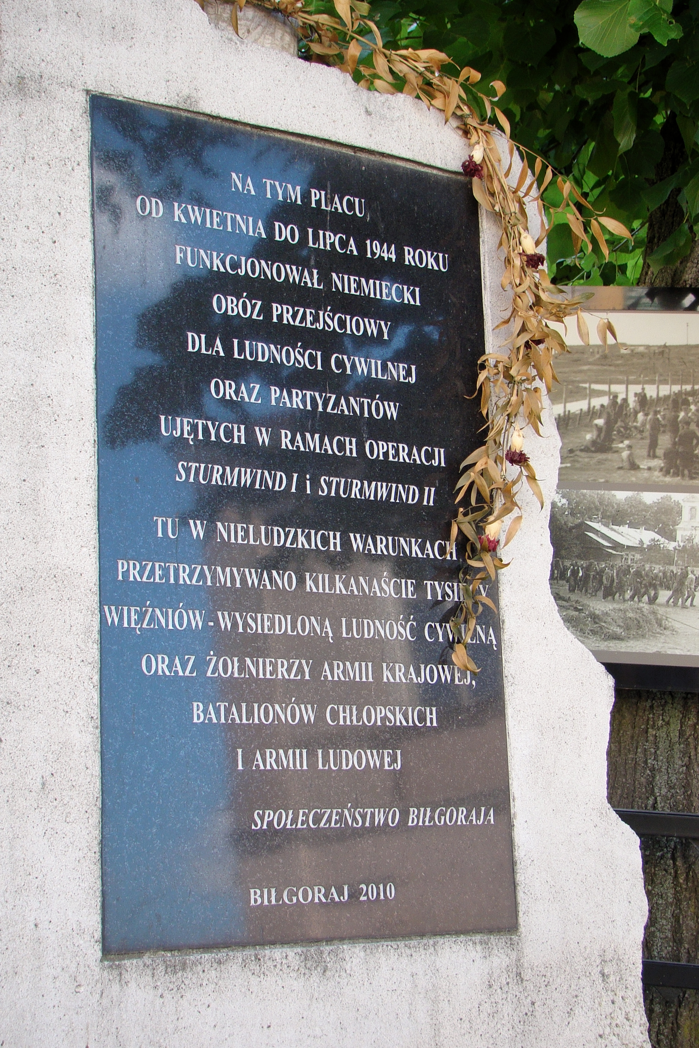 Biłgoraj - memorial to civilians, soldiers of Armia Krajowa, Bataliony Chłopskie and Armia Ludowa